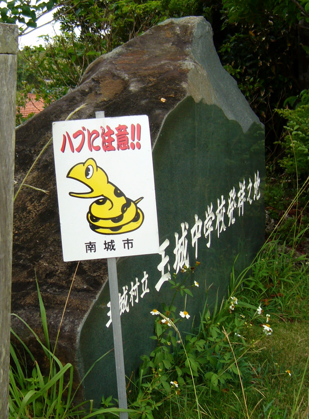 Habu (Trimeresurus flavoviridis, Okinawan pit viper) caution sign, Tamagusuku Junior High School, Nanjō, Okinawa Prefecture, Japan